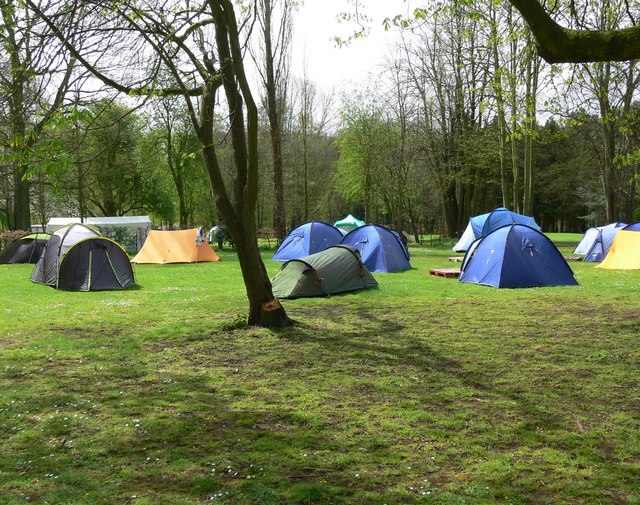 Willesley has a Camp Site used by the scouts.